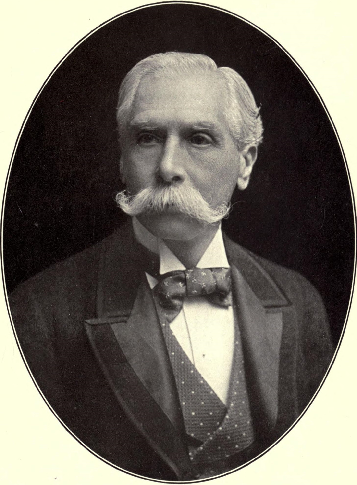 Photo of Alfred Austin